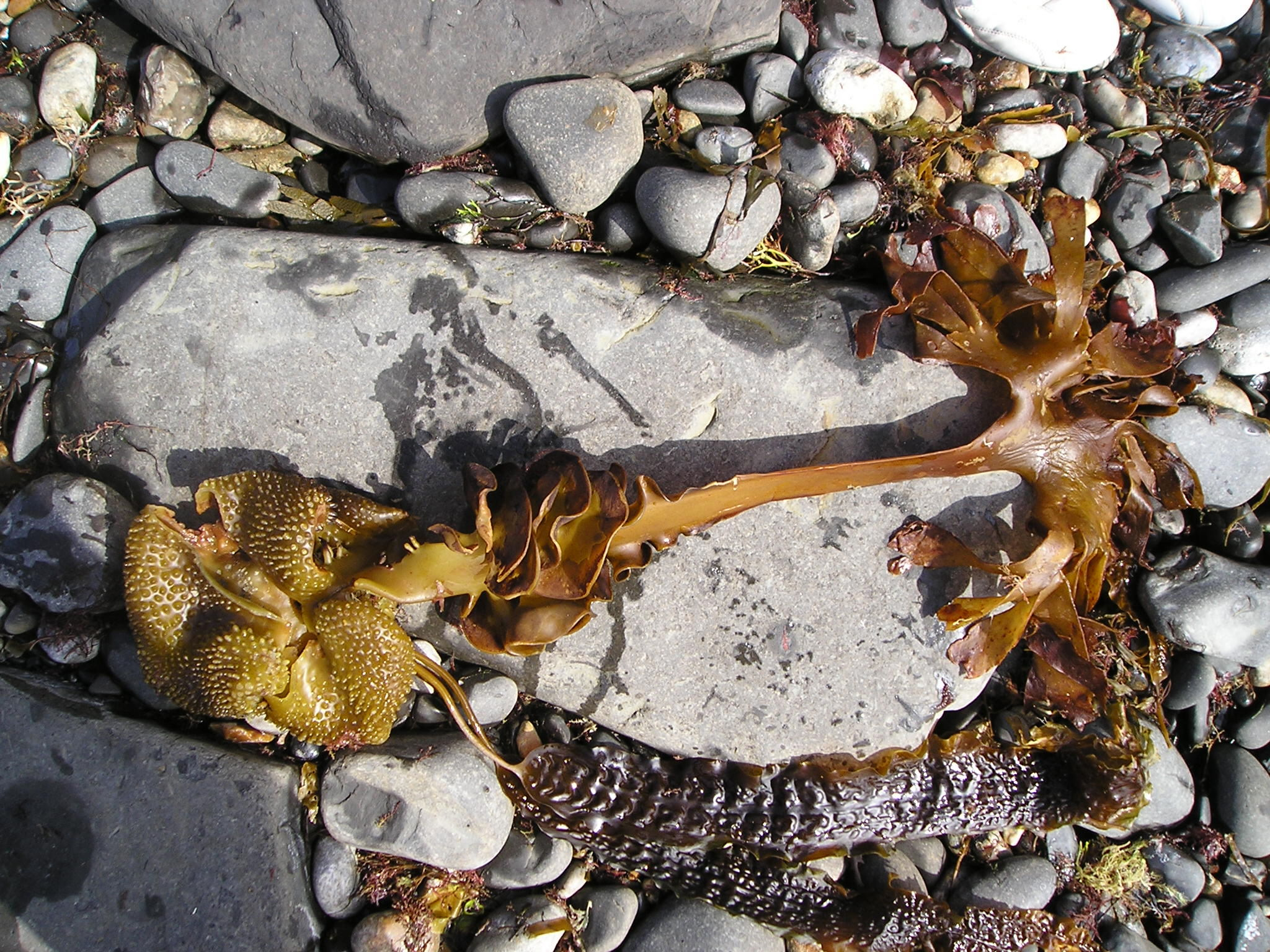 Saccorhiza polyschides (above) and Saccharina latissima (below).